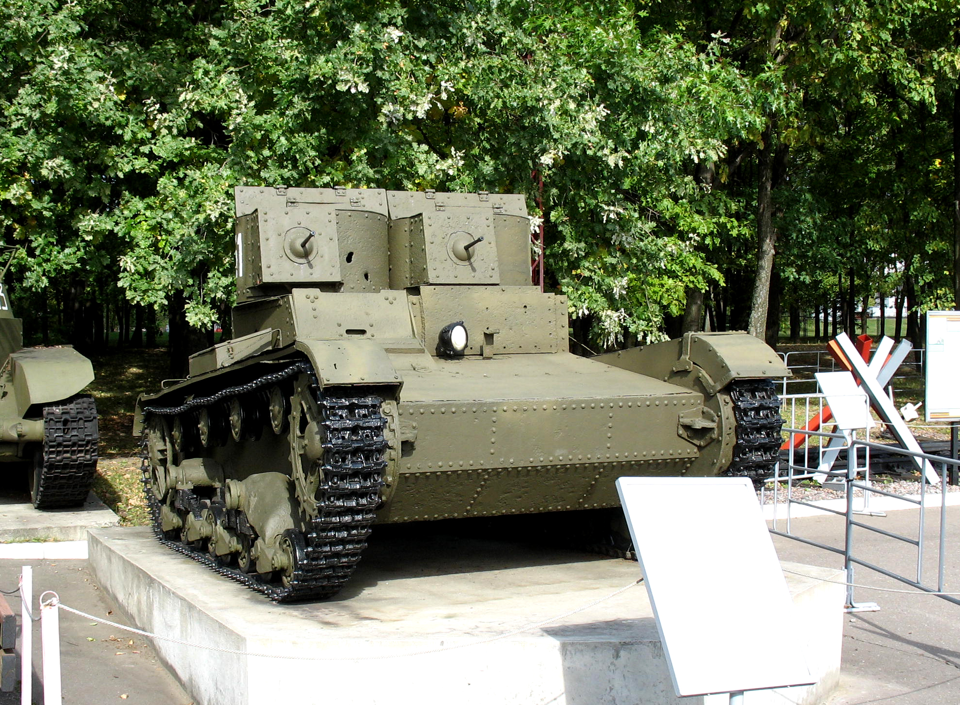 Light tank T-26 (USSR)